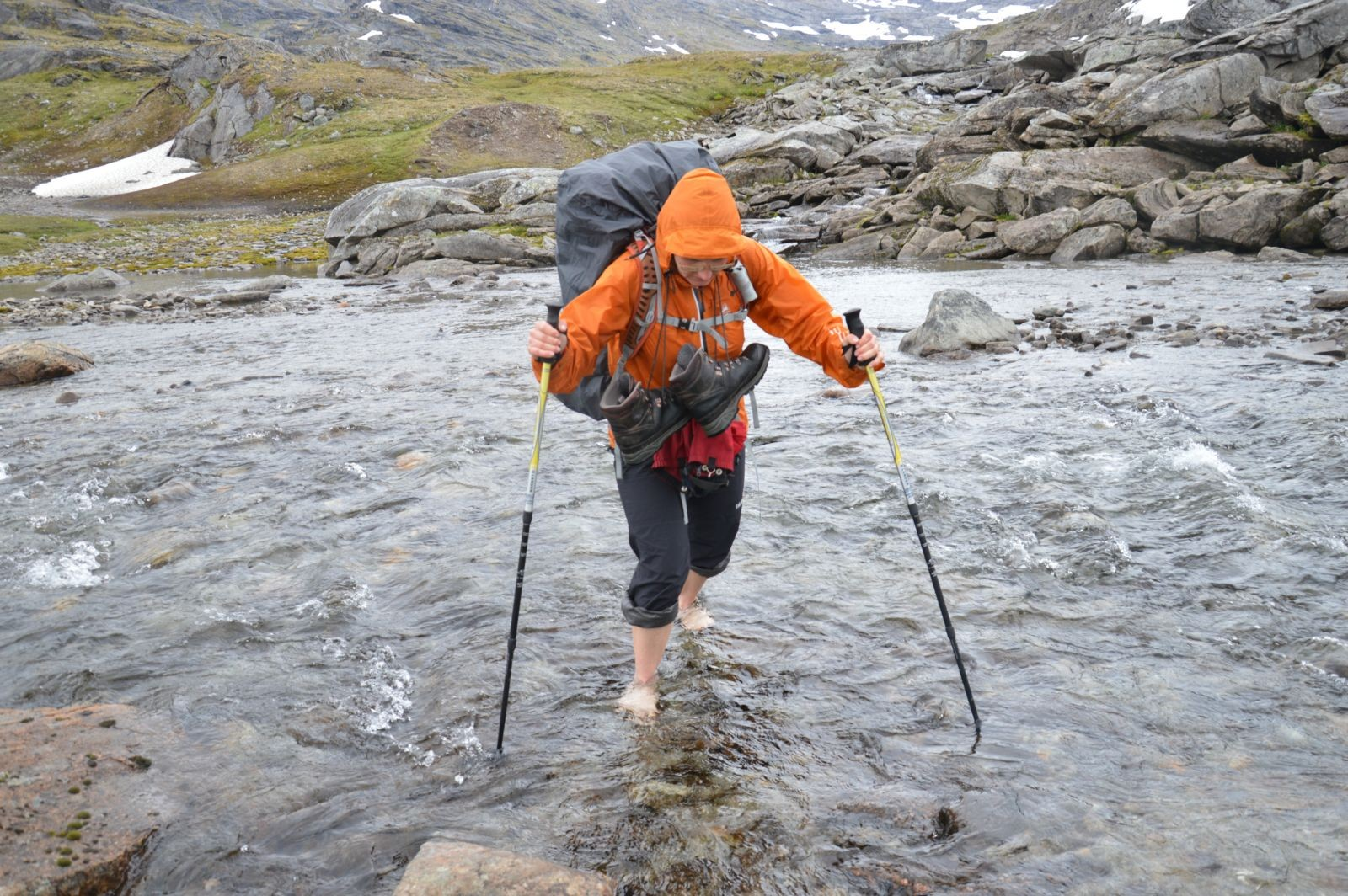 On Nordkalottleden is frequent wading